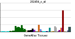 Gene expression pattern of the ERBB3 gene.